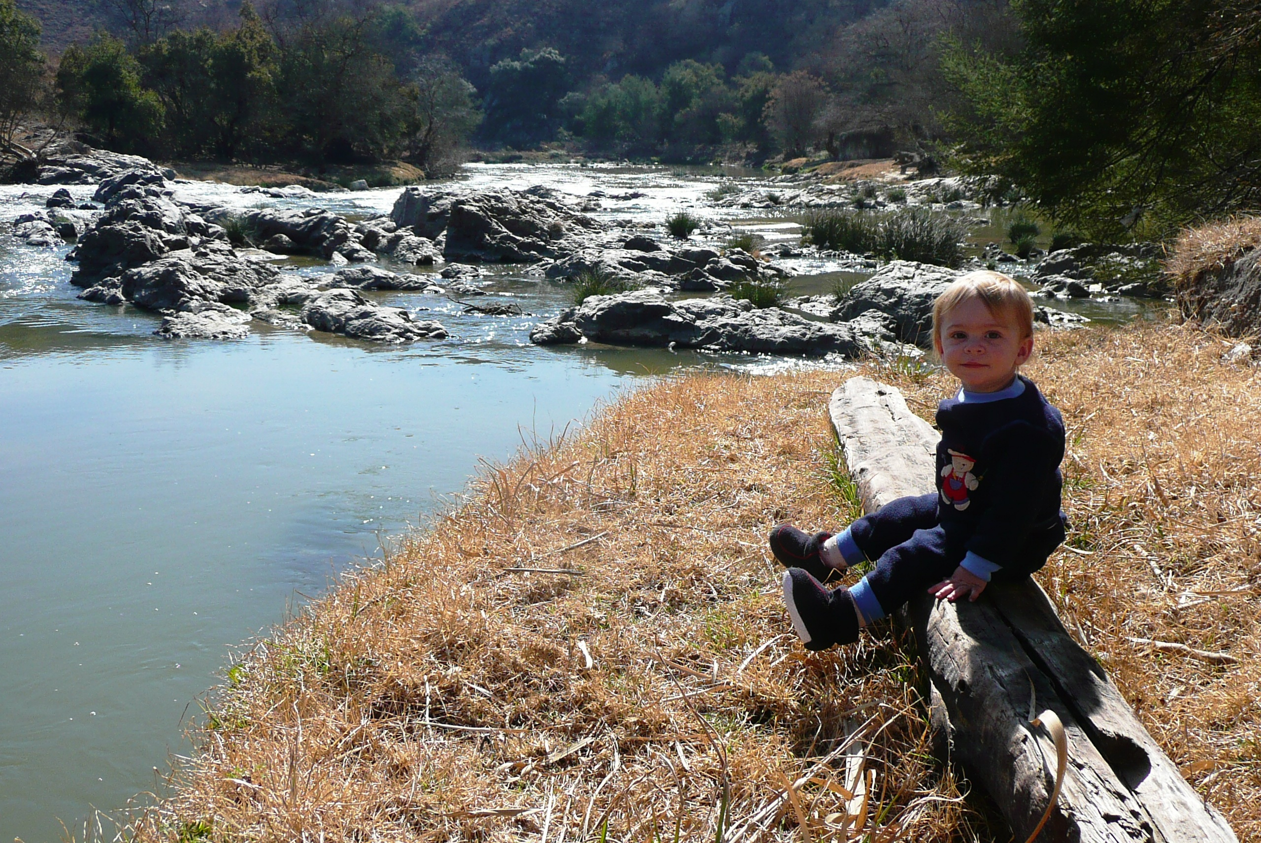 A South African girl sitting next to the Jukskei river